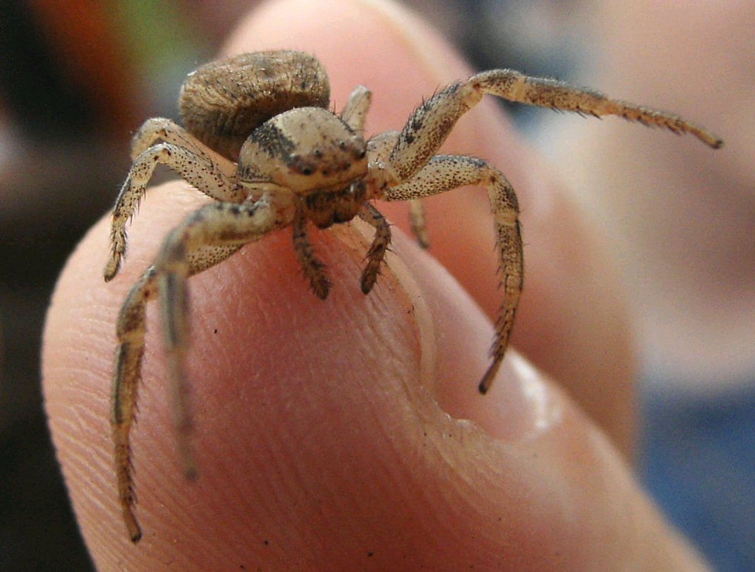 Ozyptila atomaria near Nettersheim, Germany. Found on a meadow adjacent to a forest.